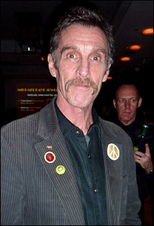 The actor John Glover in the 2009